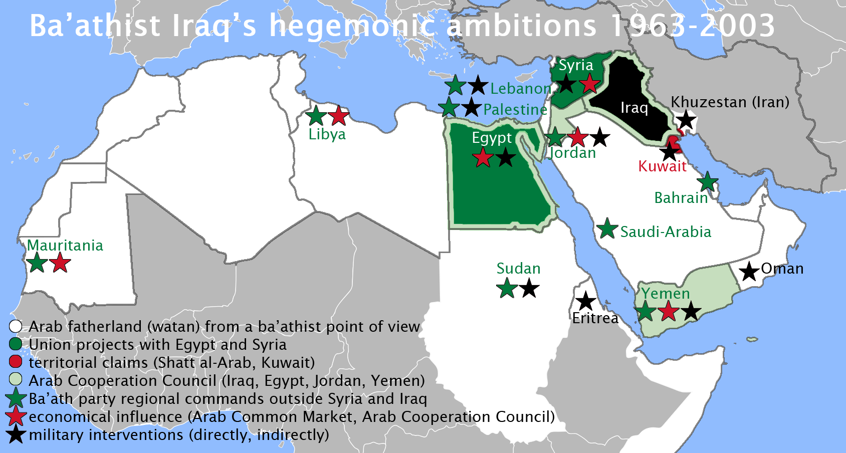 Baathist Iraq's hegemonic ambitions between 1963 and 2003: white area = Arab fatherland (watan) in the baathist view black area = Iraq dark-green area = Union projects with Egypt (1963, 1969, 1972) and Syria (1963, 1969, 1972, 1979) light-green area = Arab Cooperation Council (Iraq, Egypt, Jordan and Yemen) red area = territorial claims (Shatt al-Arab/Khuzestan 1980-82 and 1988, Kuwait 1990-91 occupied ) green star = ideological expansion (regional Baath parties outside Syria and Iraq) red star = economic cooperation (Arab Common Market 1964-1979, Arab Cooperation Council 1989-1990) black star = military intervention (sending troops or advisers, instructors and weapons)